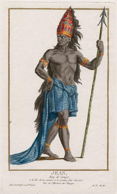 Manikongo João I of Kongo, alias Nzinga a Nkuwu or Nkuwu Nzinga.